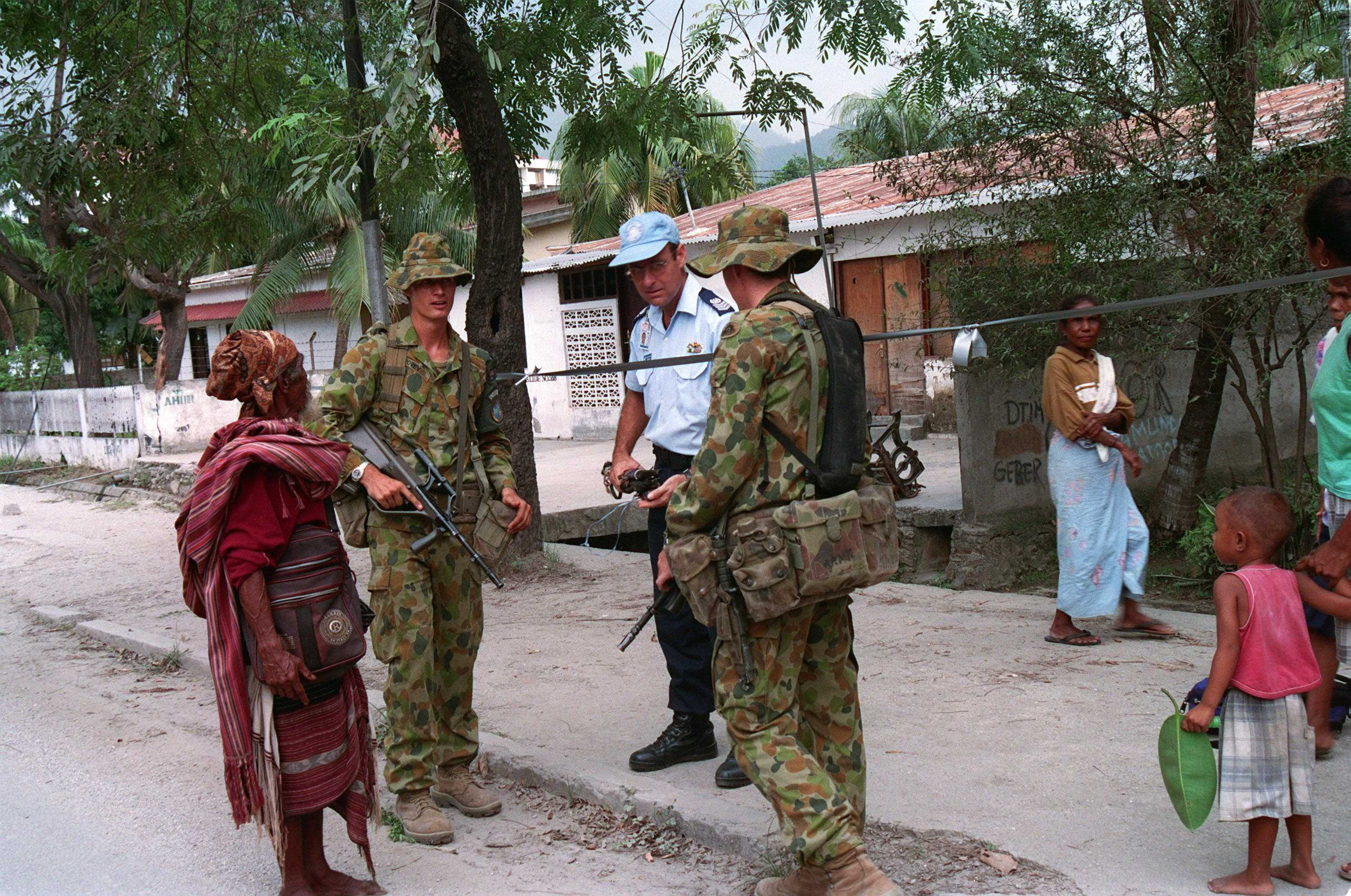 USS Blue Ridge, 12 February 2000, Dili, East Timor-- Australian members of International Forces East Timor (INTERFET), talk to a citizen in Dili, East Timor. (Photo by PH3 Dan Mennuto).